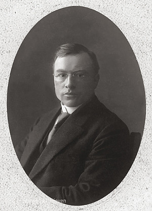 Groninger archeologist Albert Egges van Effen, ca. 1935